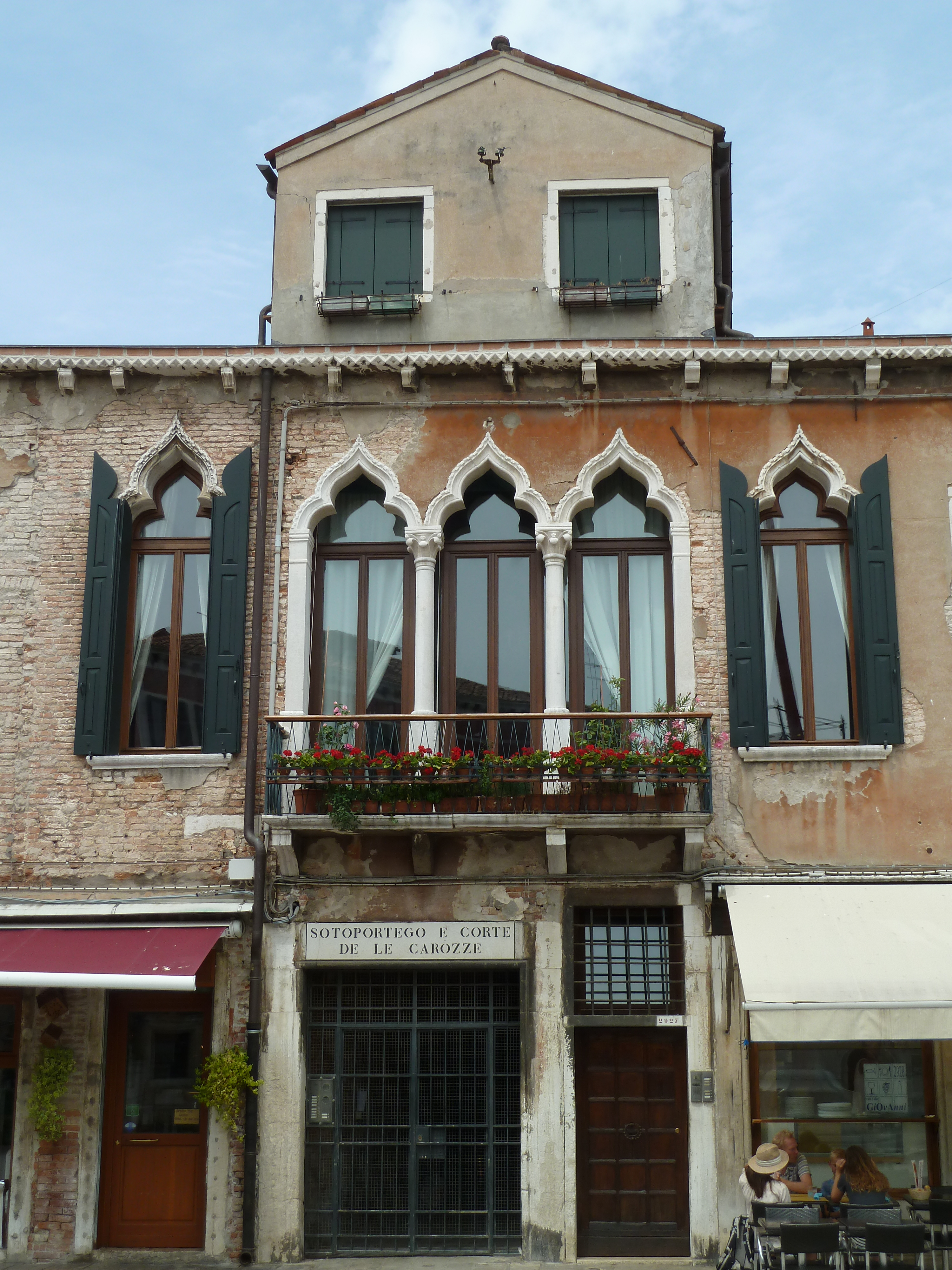 foscolo corner